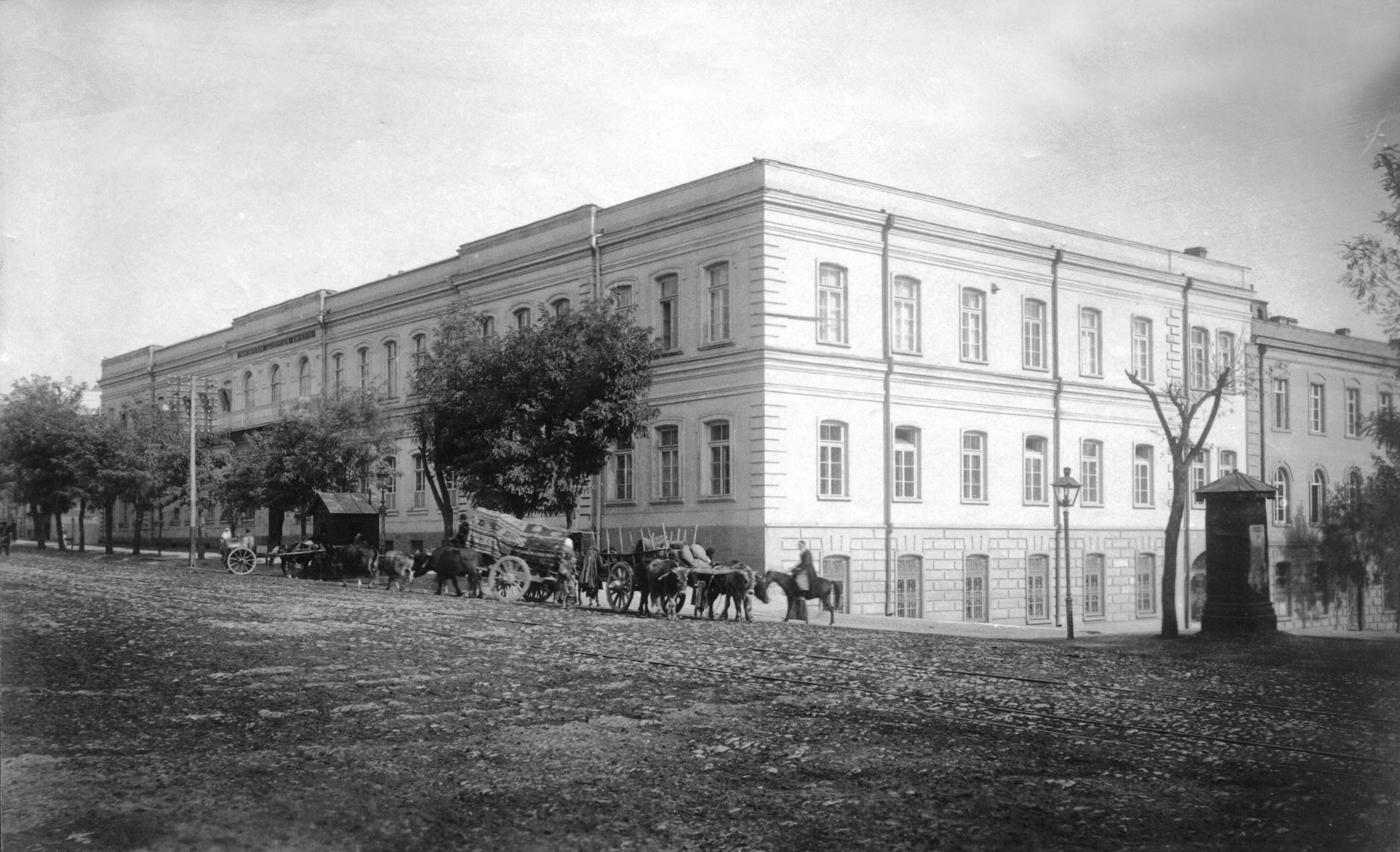 Cadet corps in Tiflis (Tbilisi)